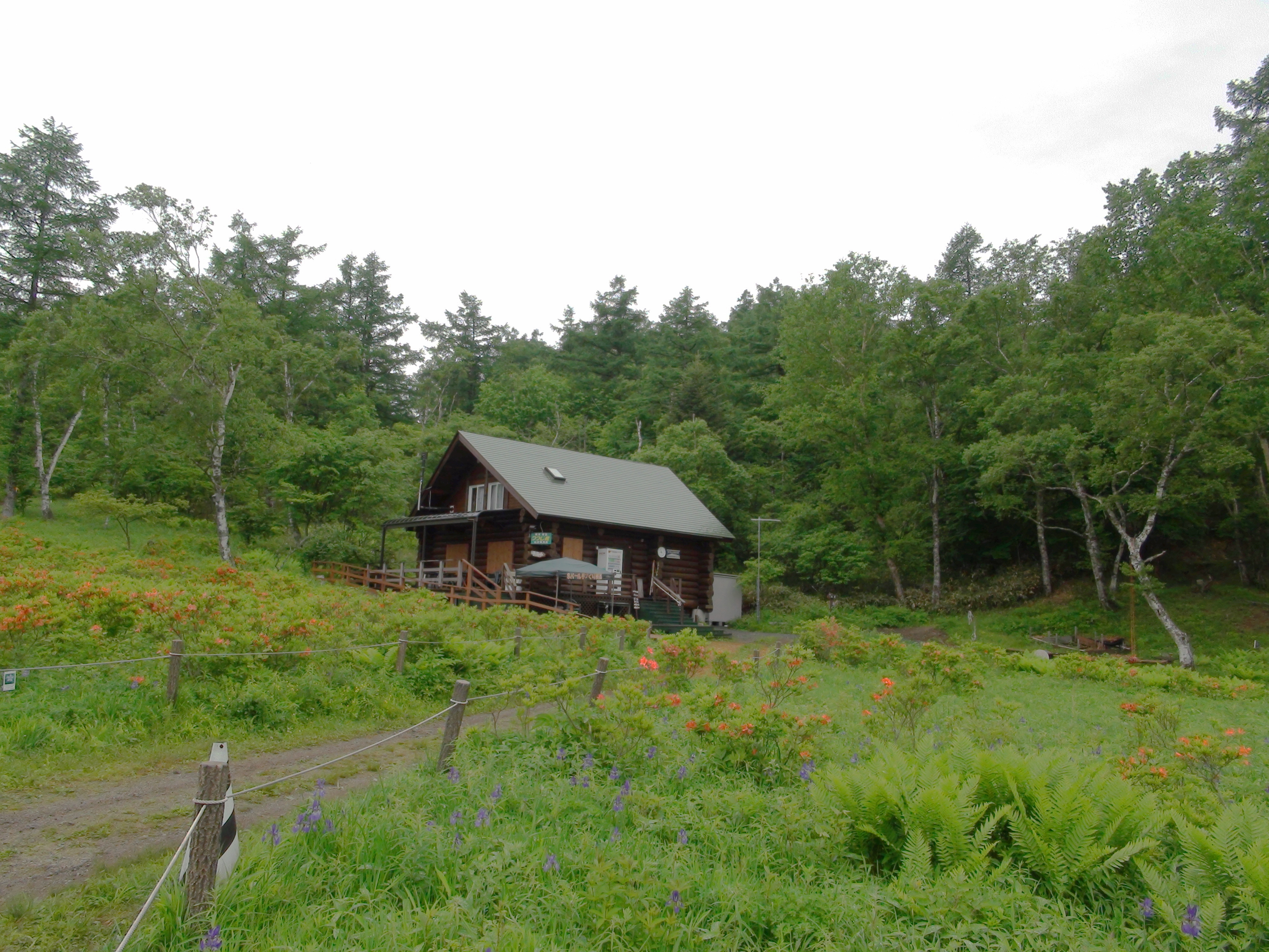 Mt. Amari mountain lodge